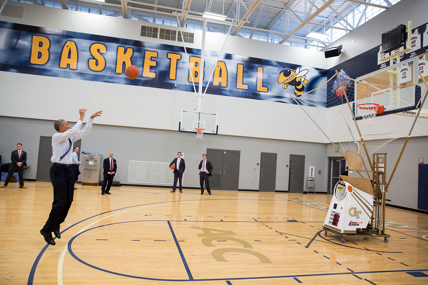 March 10, 2015 "Although he doesn't play competitive basketball anymore, basketball is still a big part of his life. He had just given a speech on education and college affordability at Georgia Tech in Atlanta, and when we passed through the gym on the way back to the motorcade, he took a few minutes to try and drain some three-point shots." (Official White House Photo by Pete Souza)